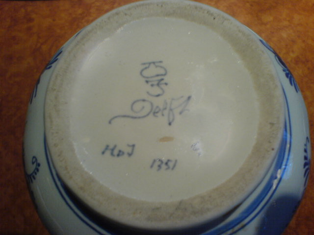 Delft Blue mark, Porceleyne Fles, year=1959.